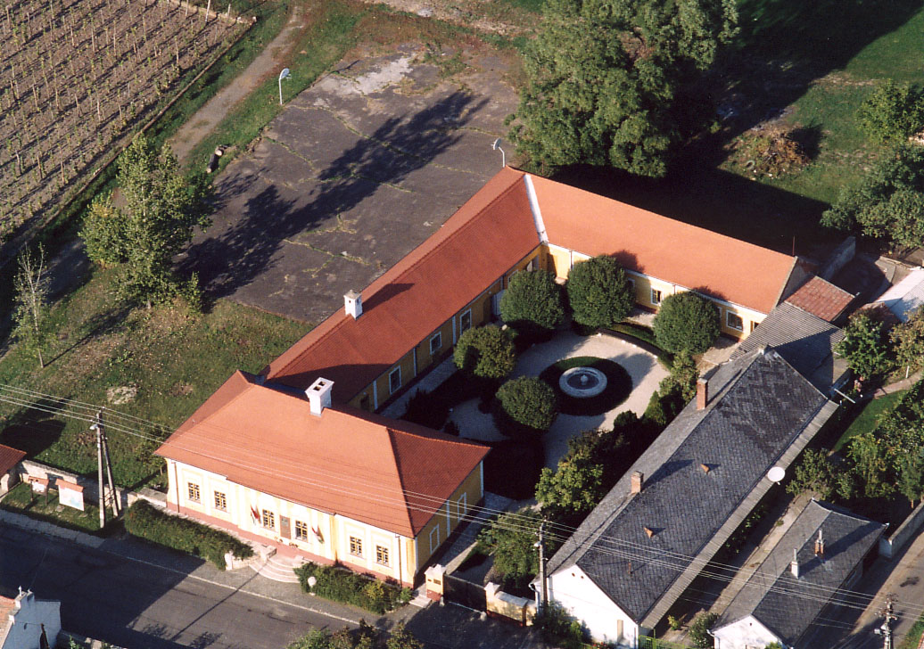 Monok (Birthplace of Kossuth Lajos) - Hungary - Europe